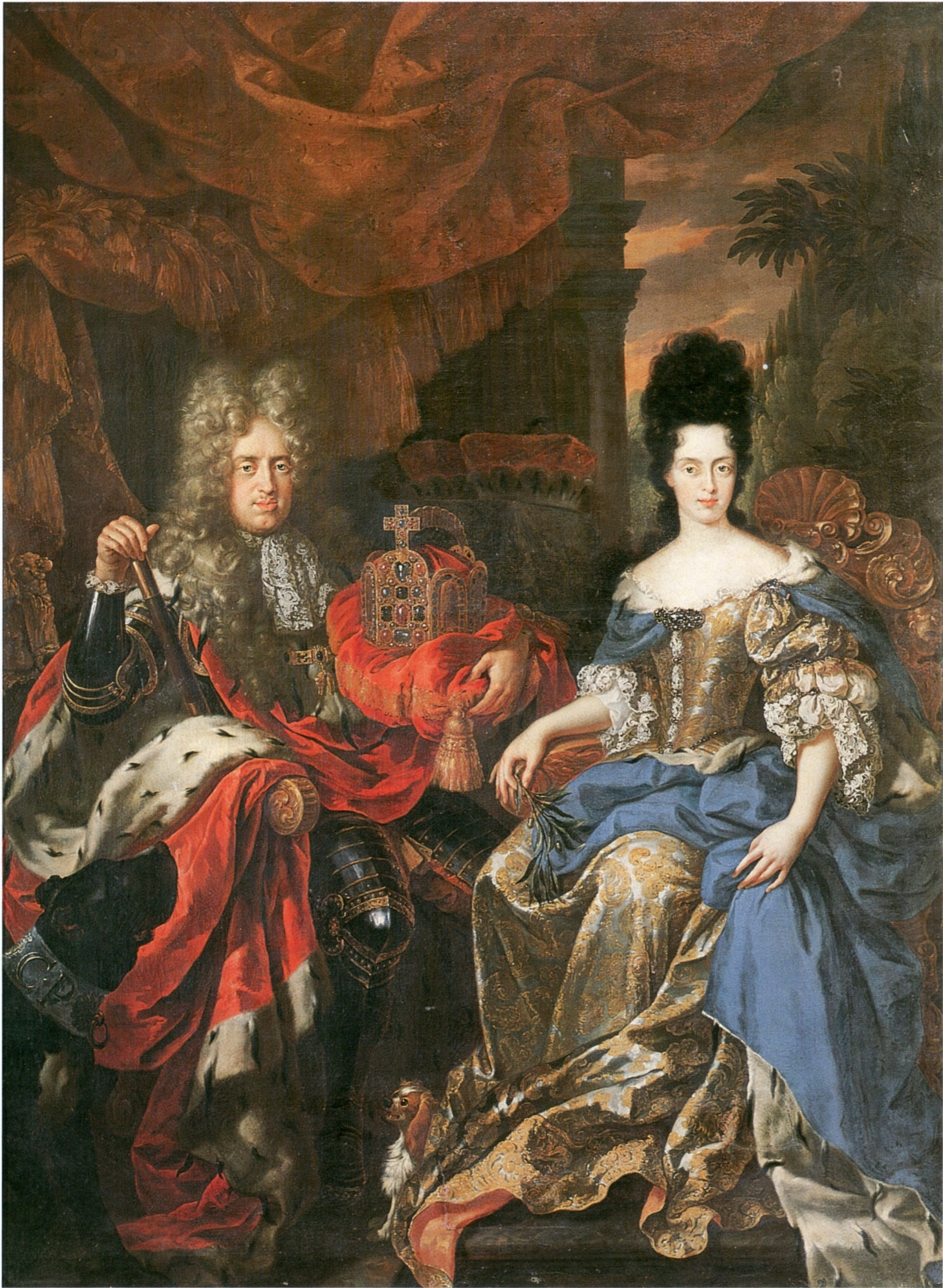 Portrait of Johann Wilhelm II (1658-1716), Elector Palatine, and his second consort Anna Maria Luisa de' Medici (1667-1743).